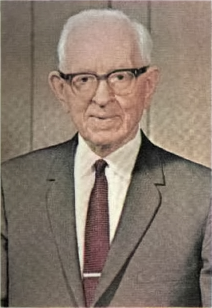 Joseph Fielding Smith, Jr., the tenth president of The Church of Jesus Christ of Latter-day Saints (LDS Church) from 1970 until his death. He was the son of Joseph F. Smith, who was the sixth president of the LDS Church. His grandfather was Hyrum Smith, brother of LDS Church founder Joseph Smith, Jr., who was Joseph Fielding's great-uncle.